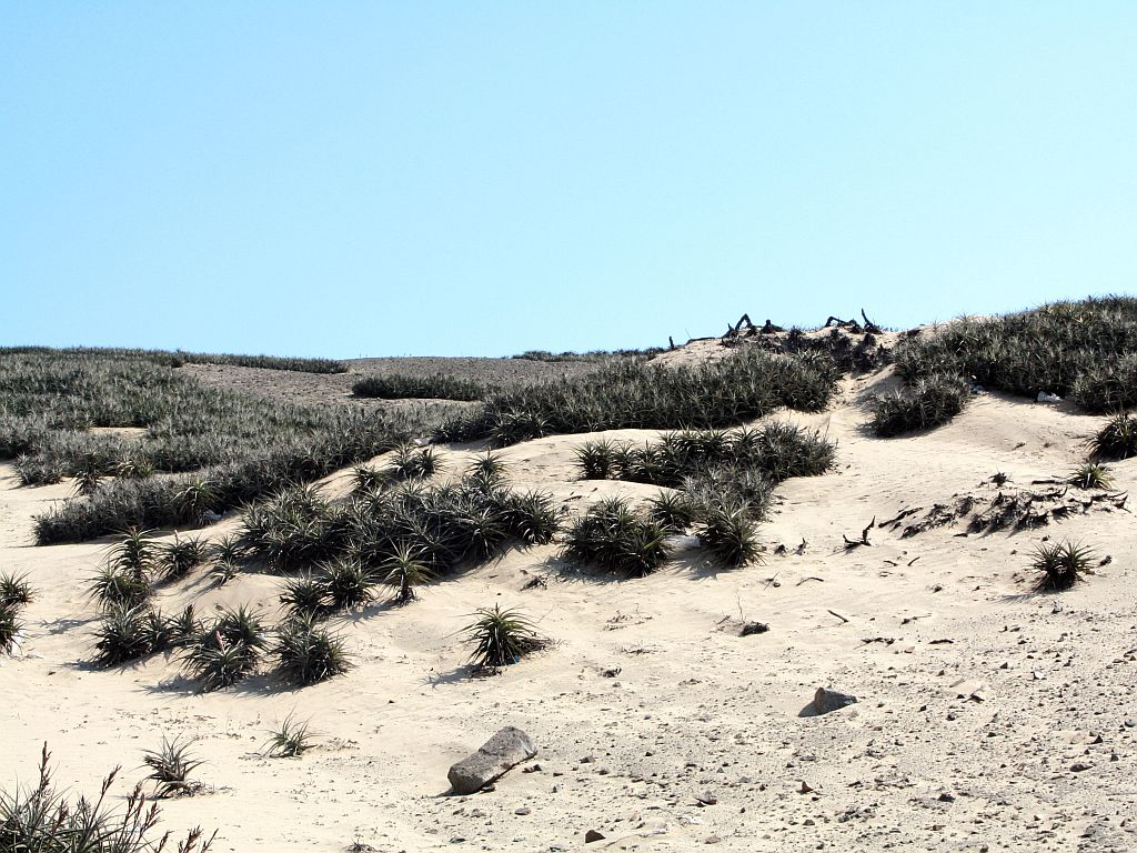 Tillandsia latifolia, in habitat in Peru, exact location unknown.